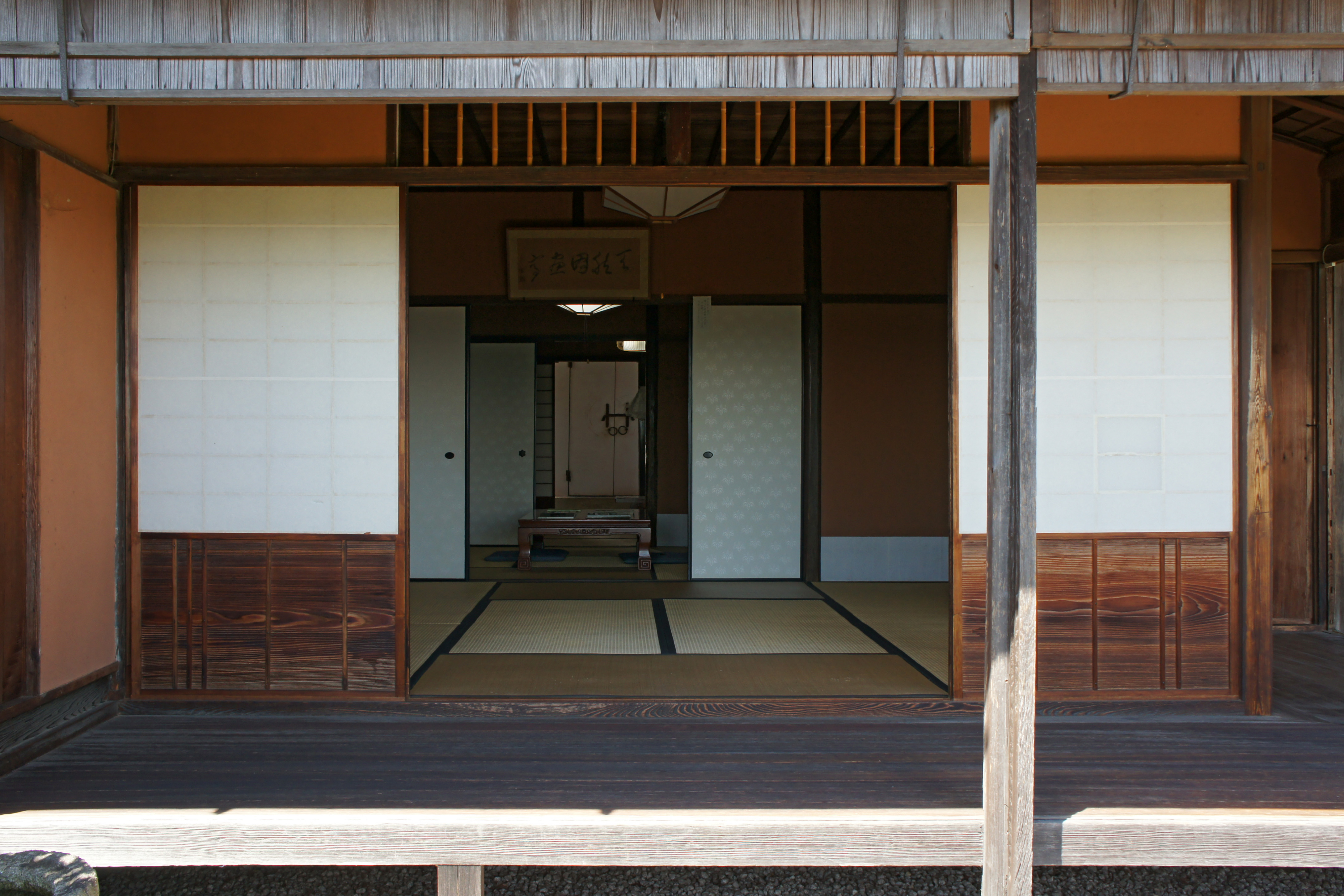 Isome-shi Garden in Otsu, Shiga prefecture, Japan.